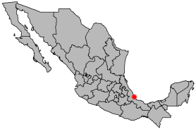 Location of Veracruz Llave, Veracruz, Mexico